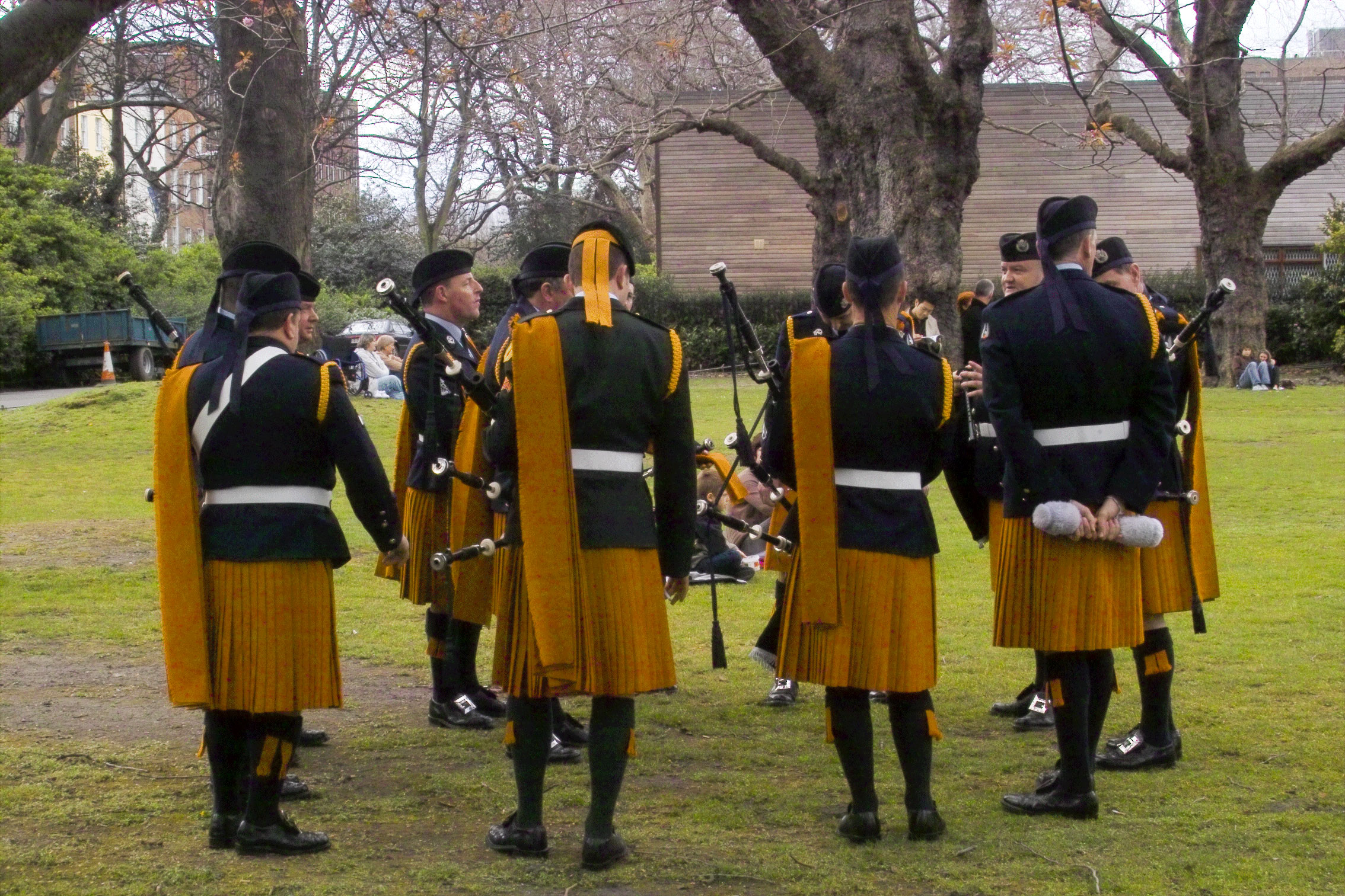 Members of Irish Air Corps Pipe Band, wearing Blue Tunic and Saffron Irish kilts. Converted to JPG from an original GIF file.